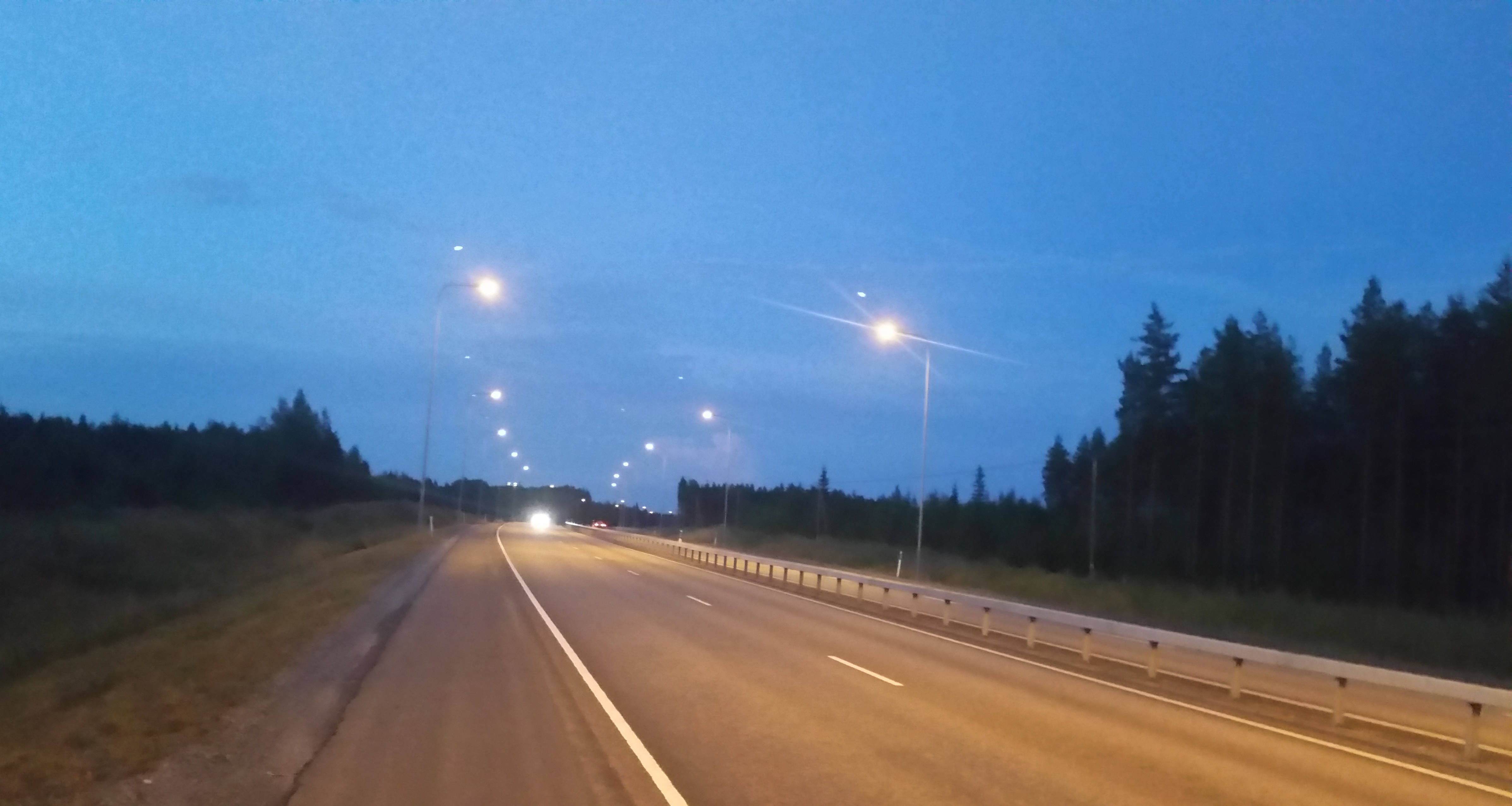 National Highway 6 in Finland between Imatra and Lappeenranta